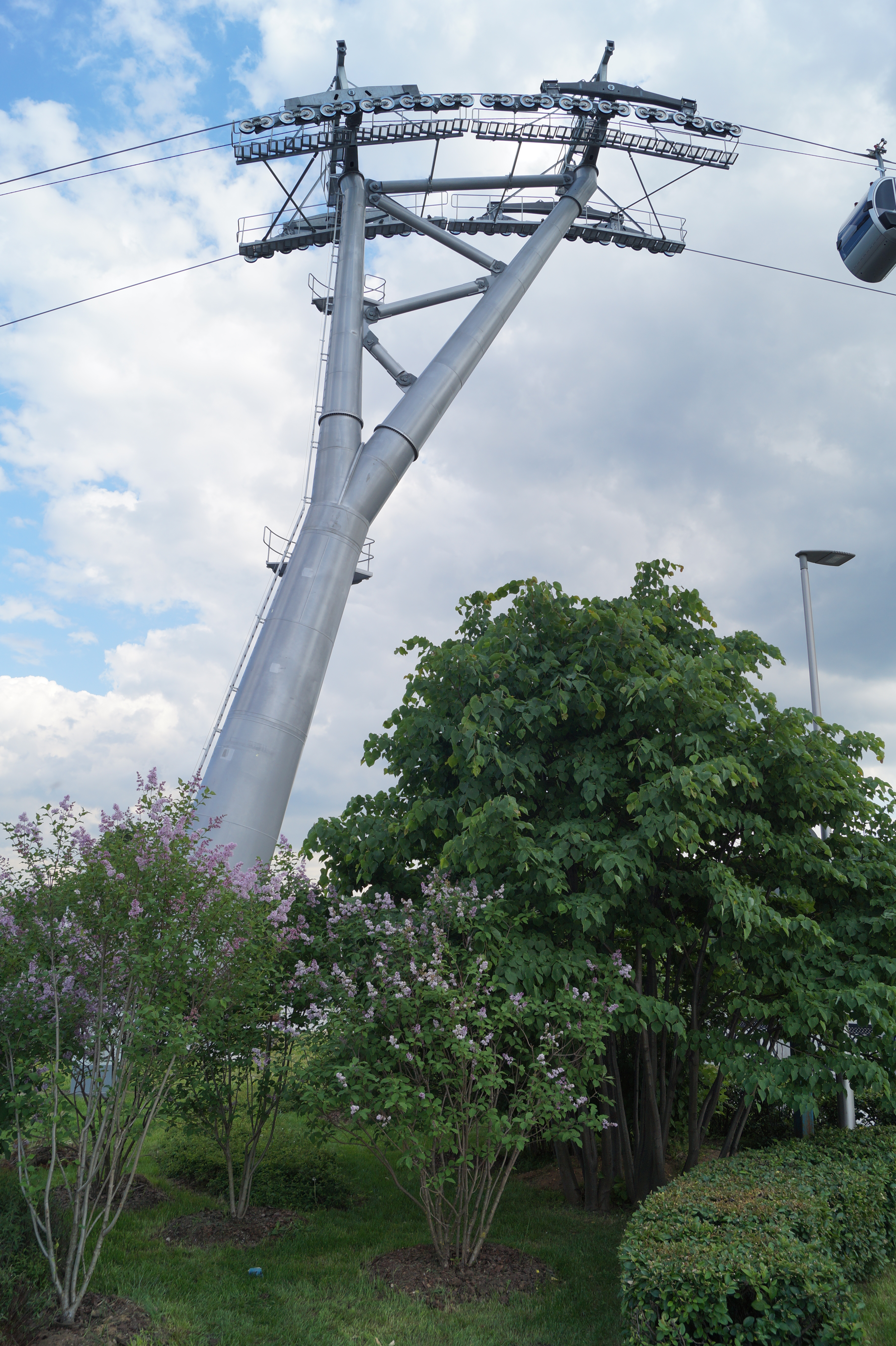 Luzhniki Cableway Station May 2018